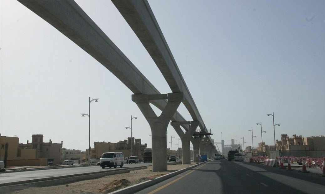 This is a photo showing the viaduct for the Palm Jumeirah Monorail which is under construction on the Palm Jumeirah in Dubai, United Arab Emirates on 16 April 2007.